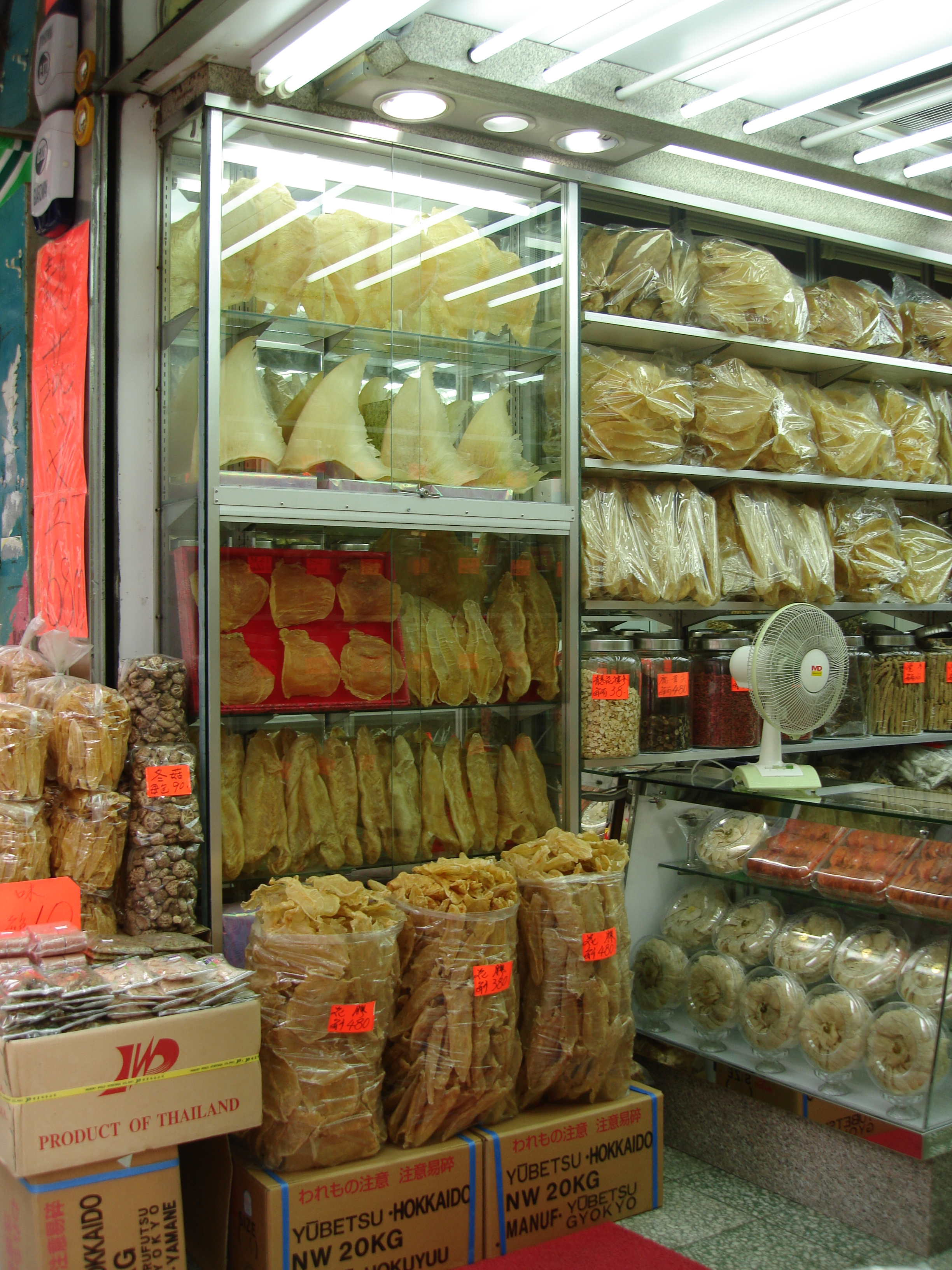 Shark fins shop in Hong Kong.